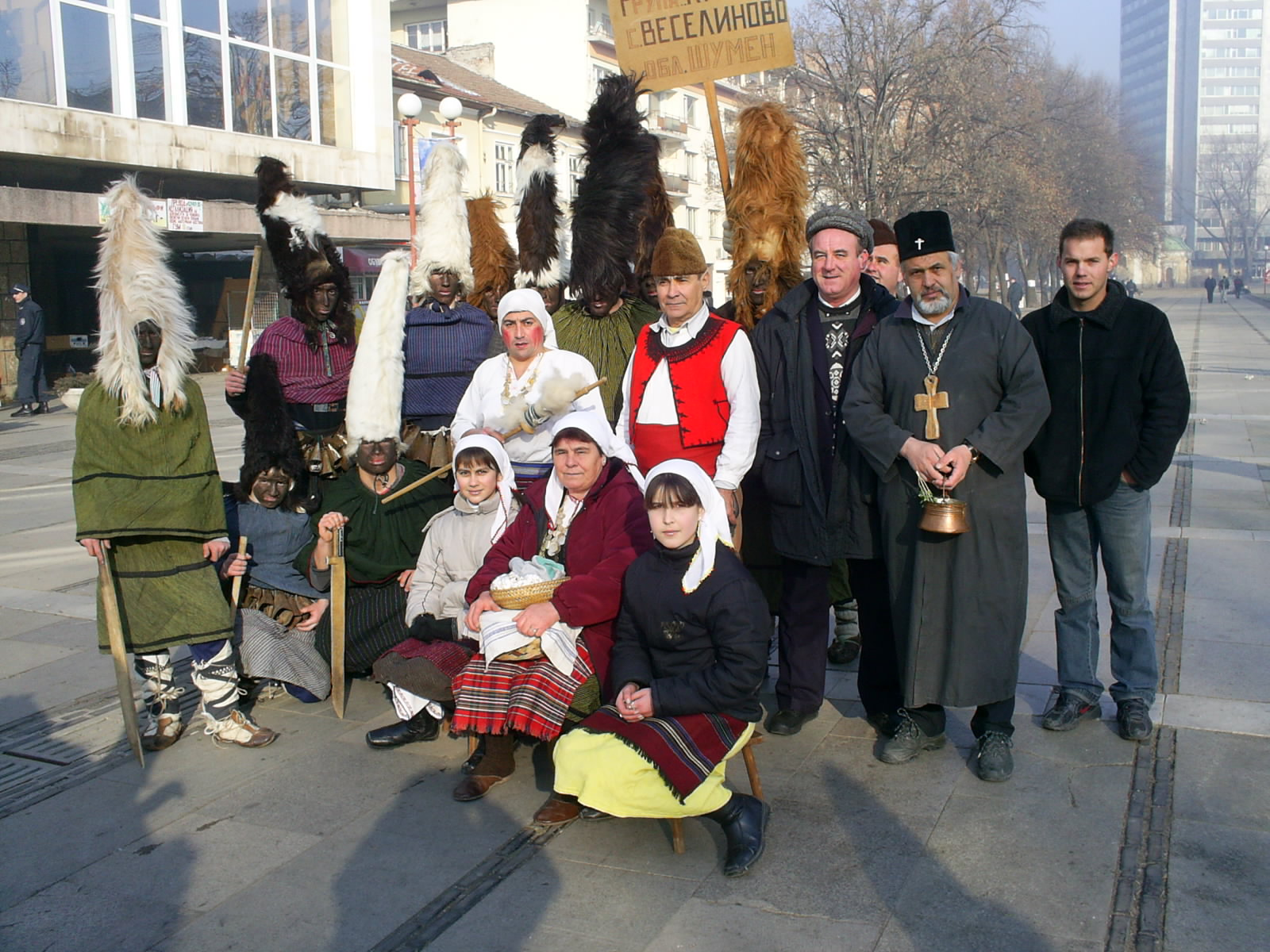 "Black kukeri" group of village of Veselinovo, Shumen District, Bulgaria